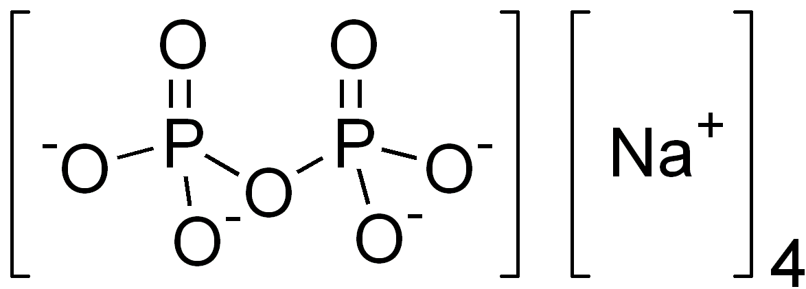 chemical structure of sodium pyrophosphate